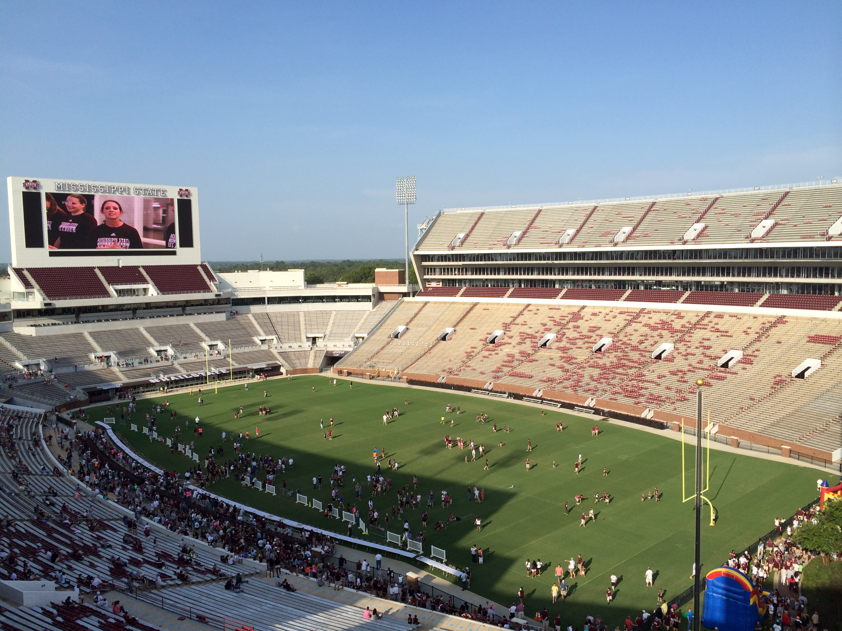 The completed 2014 expansion of Davis Wade Stadium. New north end zone student section, scoreboard and box seating, and 2nd HD Video Board.